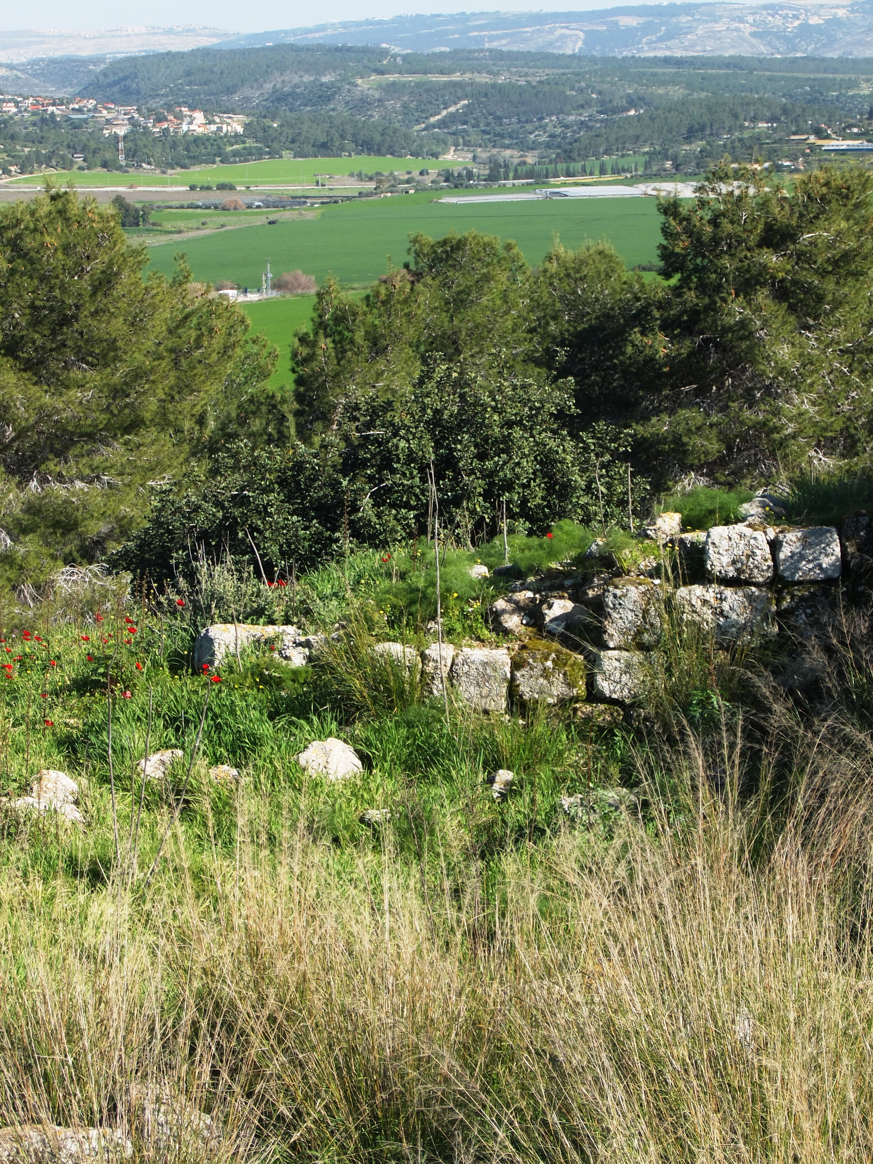 A general view of Tel Socho, the ancient ruin in the Elah Valley, Israel Other information I permit the use of this digital photo under a free license outlined under Creative Commons Attribute-Share Alike 3.o + GFDL